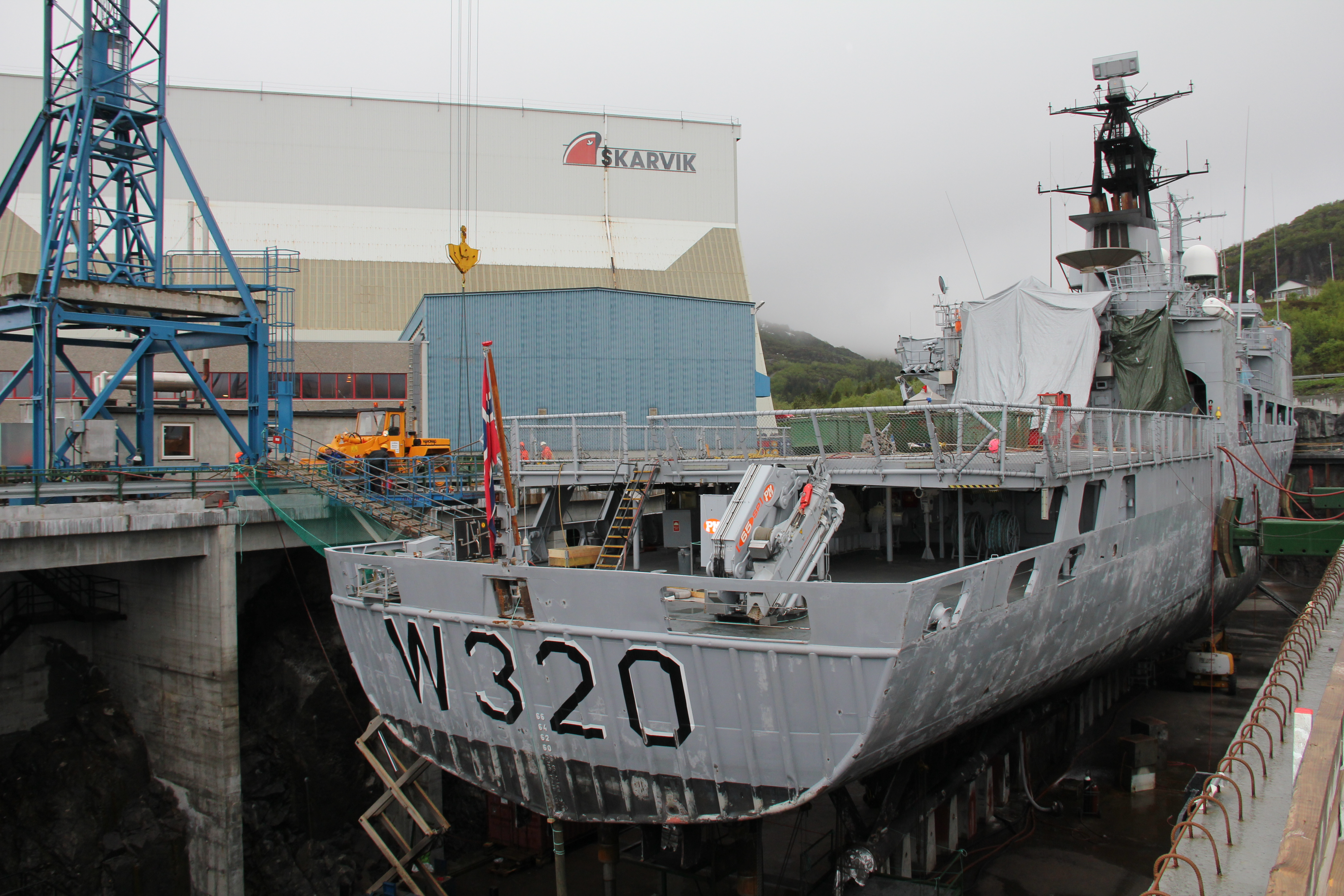 Norwegian Coast Guard ship KV Nordkapp at dry dock in Svolvær.